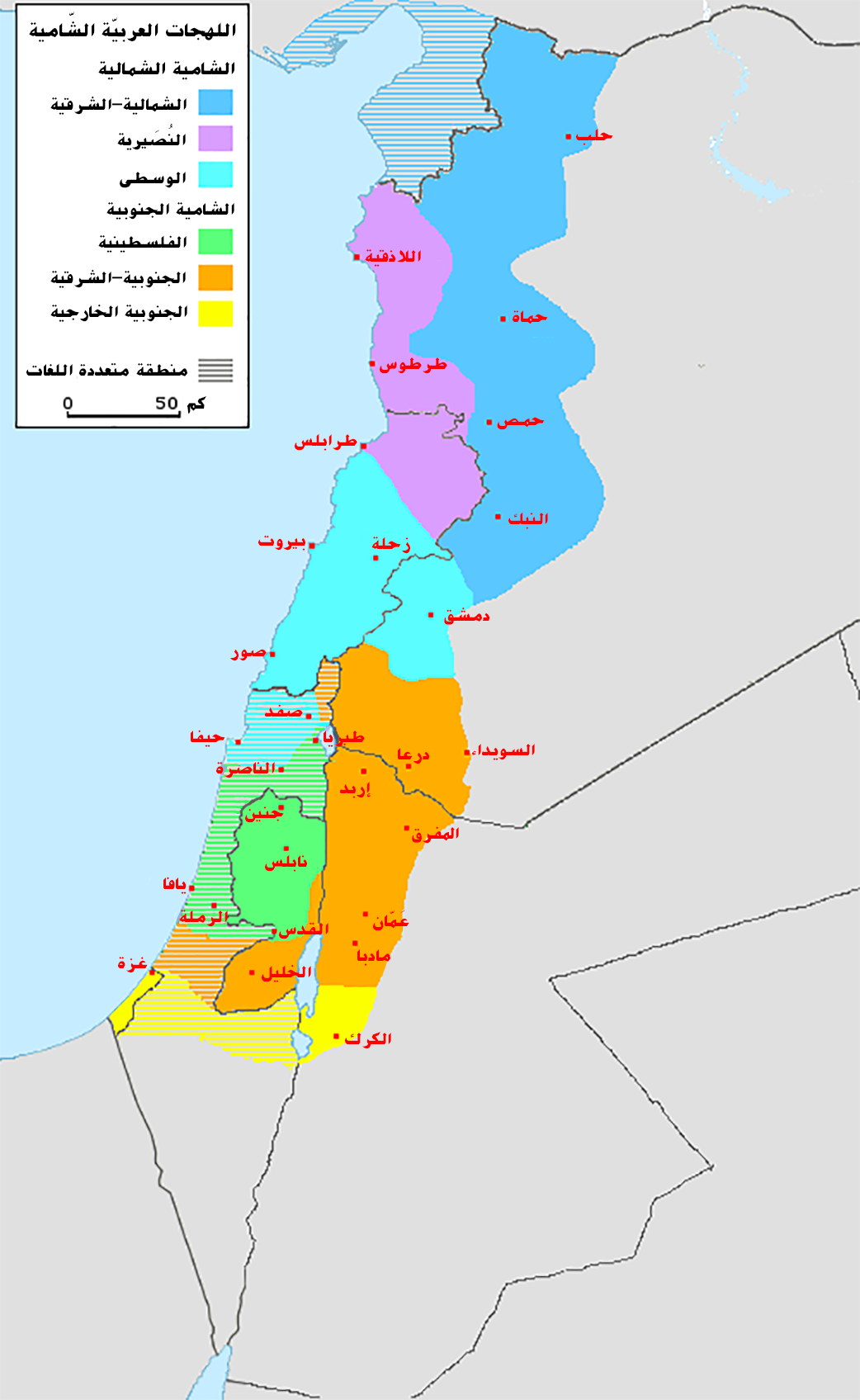 This map shows the geographical extension of Levantine Arabic, along with its partition into dialects.